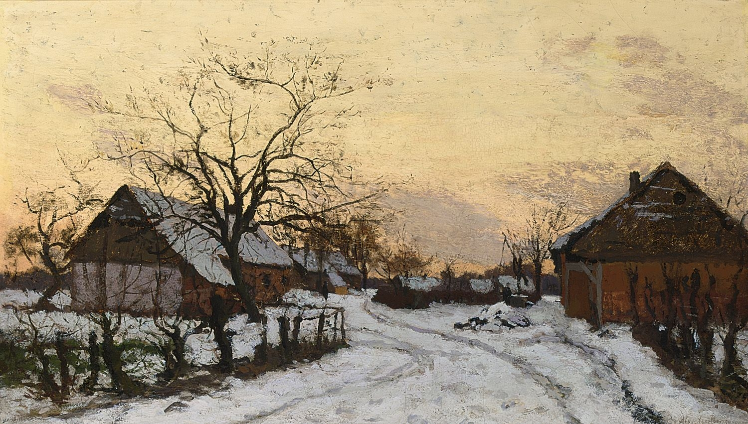 Farmhouses in the snow